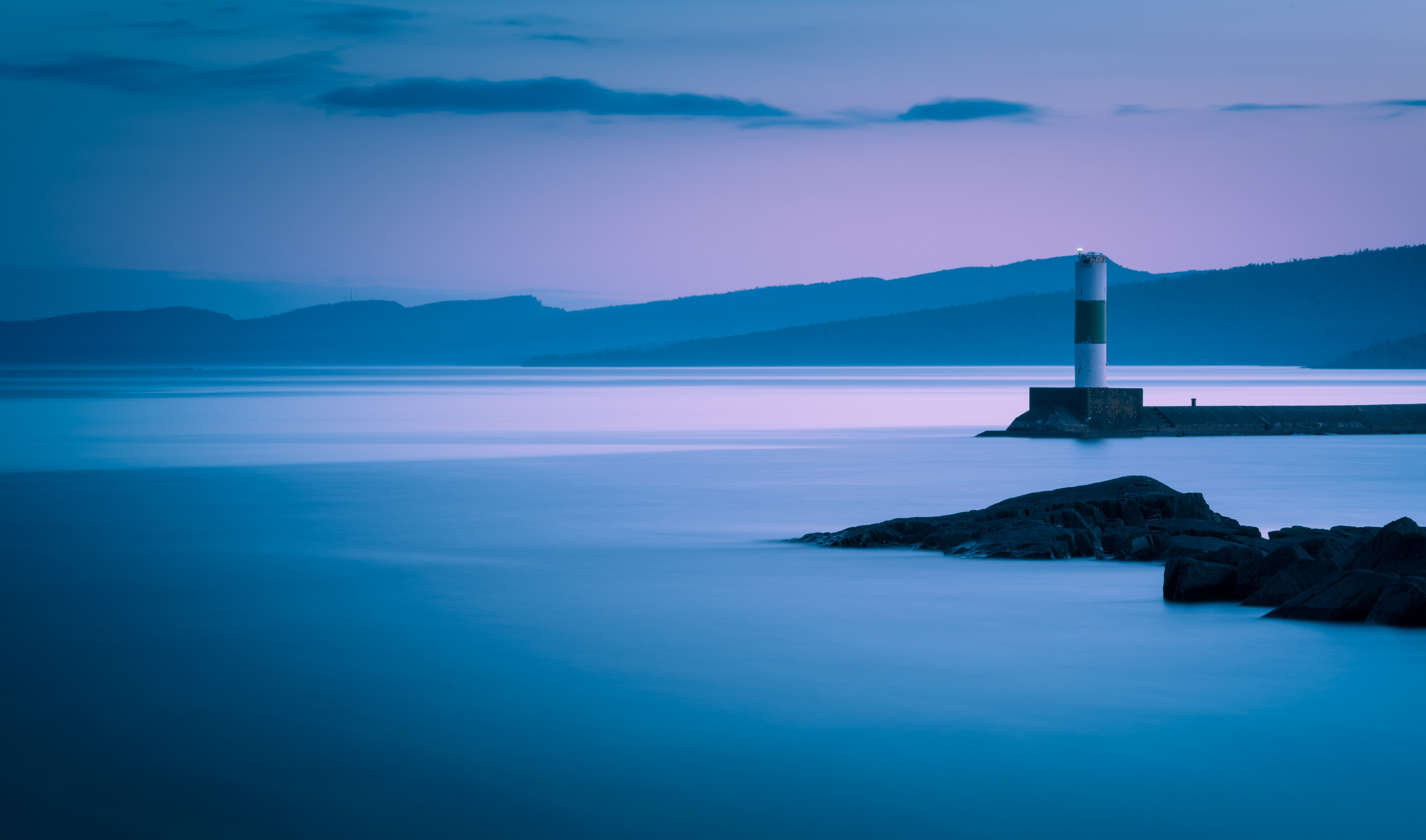 Coastline, Grand Marais, Minnesota